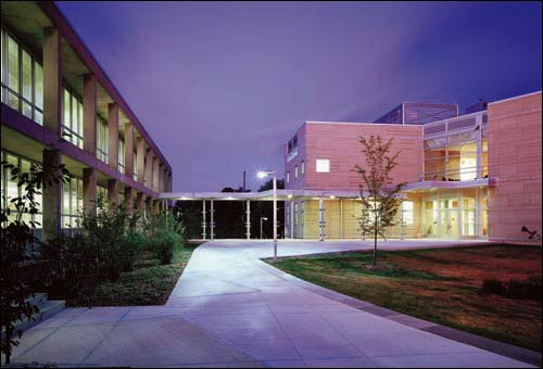 Ohio Wesleyan University